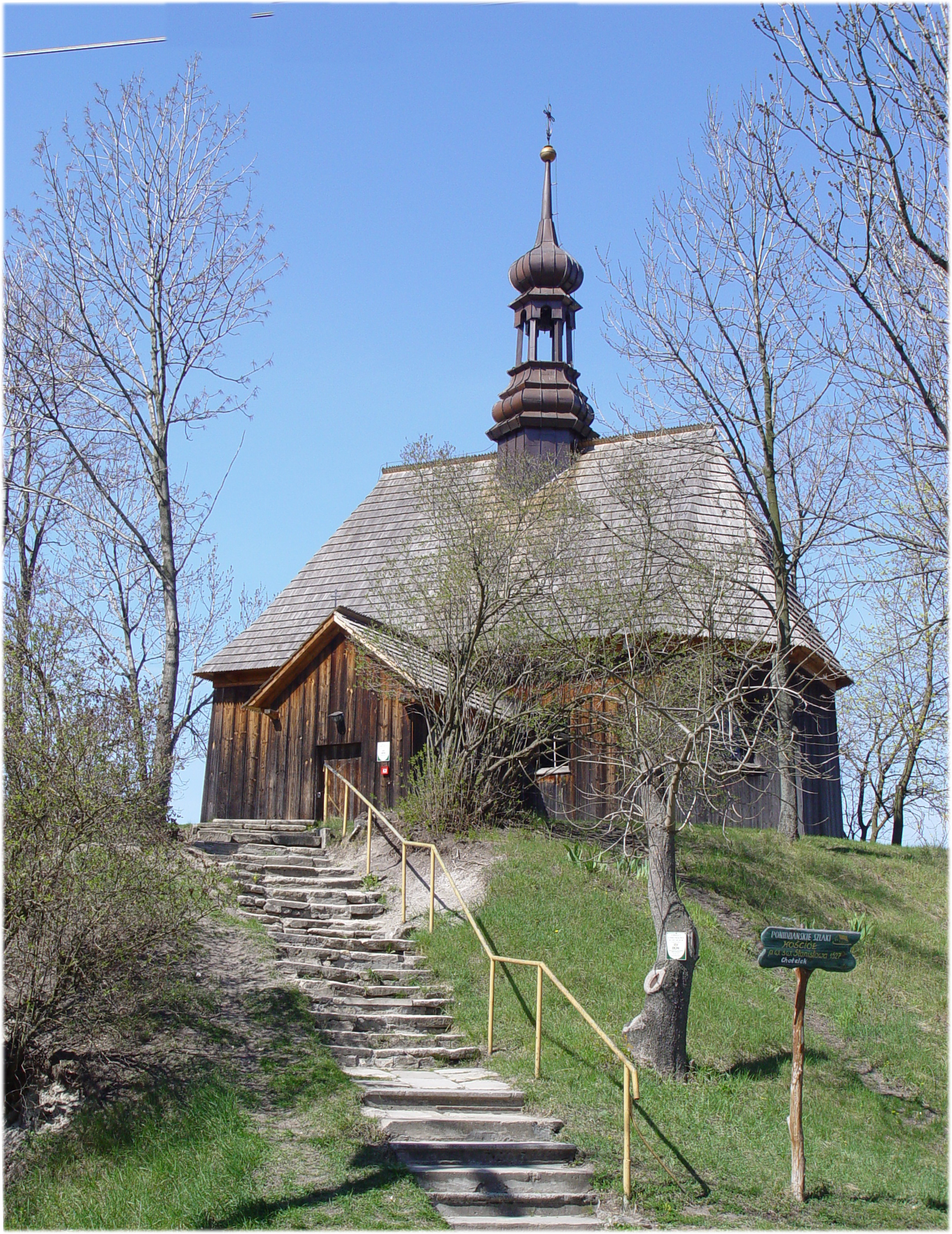 Church in Chotelek Zielony, Poland